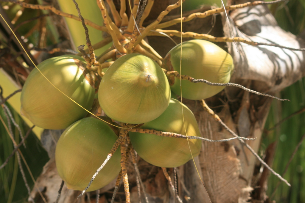 Coconuts on the palm.